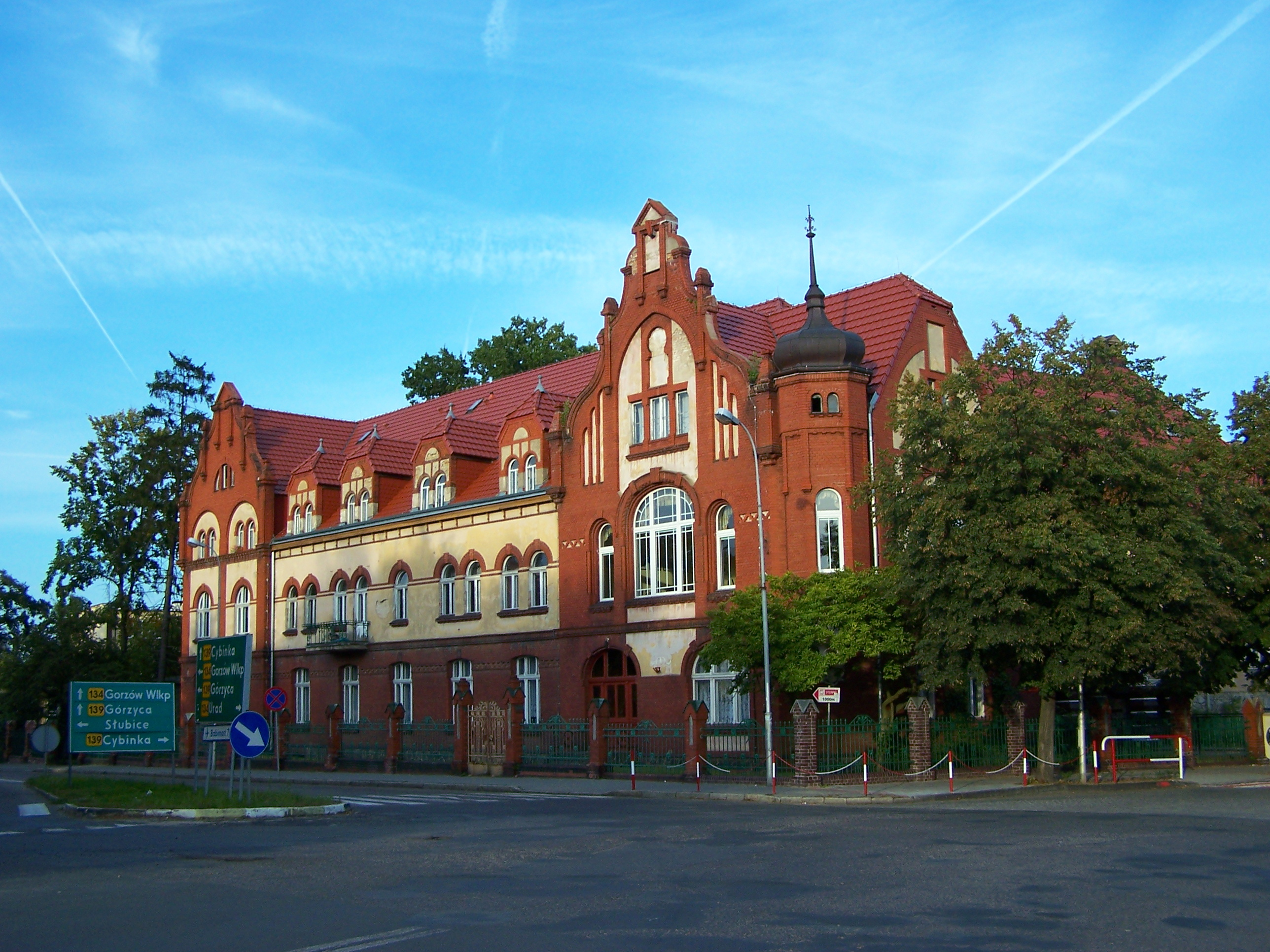 Rzepin (Poland).